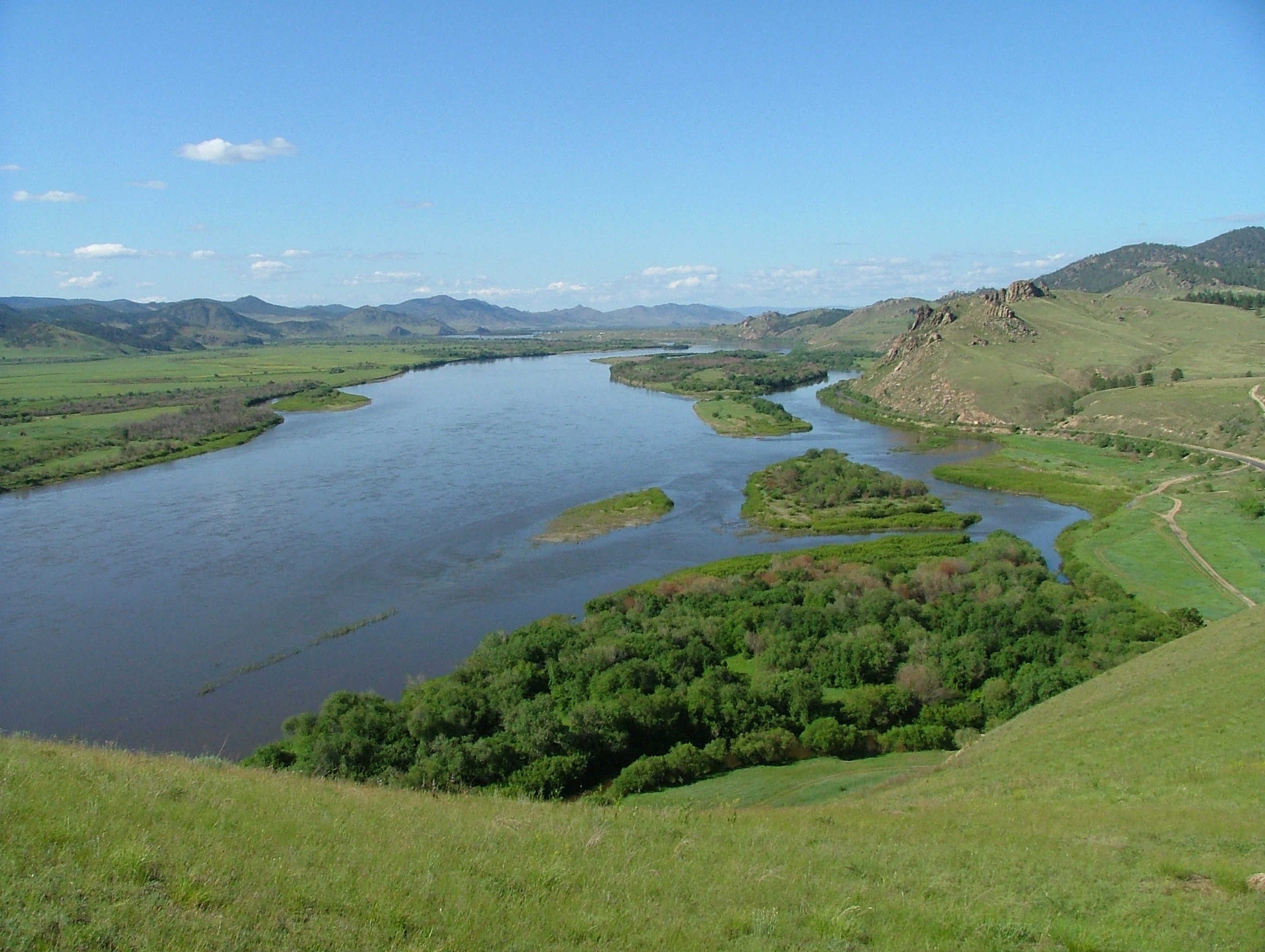 The Selenge River seen from the "shaman rock" near Ulan-Ude looking north west.